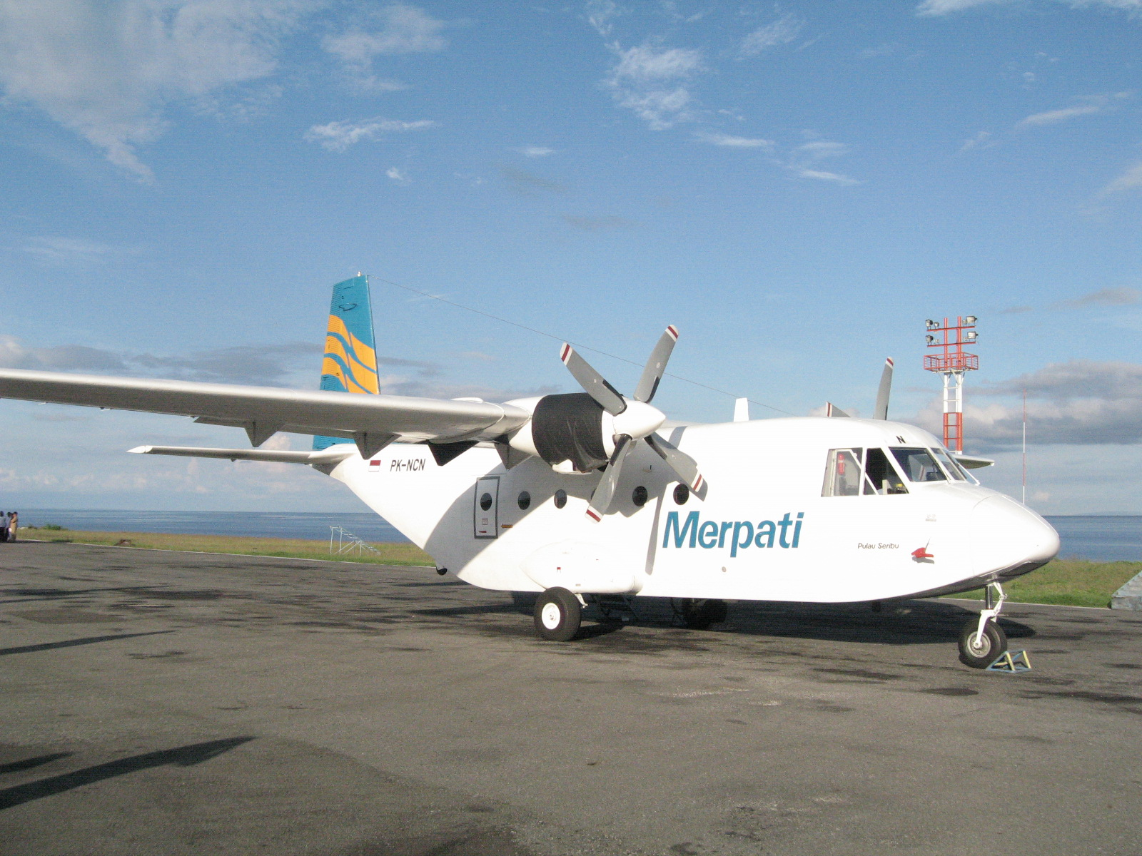 Merpati Nusantara Airlines CASA 212-200 plane at Syukuran Aminuddin Amir Airport, Luwuk, Central Sulawesi